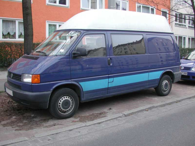 Volkswagen Eurovan T4b Highroof Half-Panel Late 1990s VW Transporter Half-Panel with high roof and long wheelbase. This type of vehicle was called "VW Eurovan" in the United States.